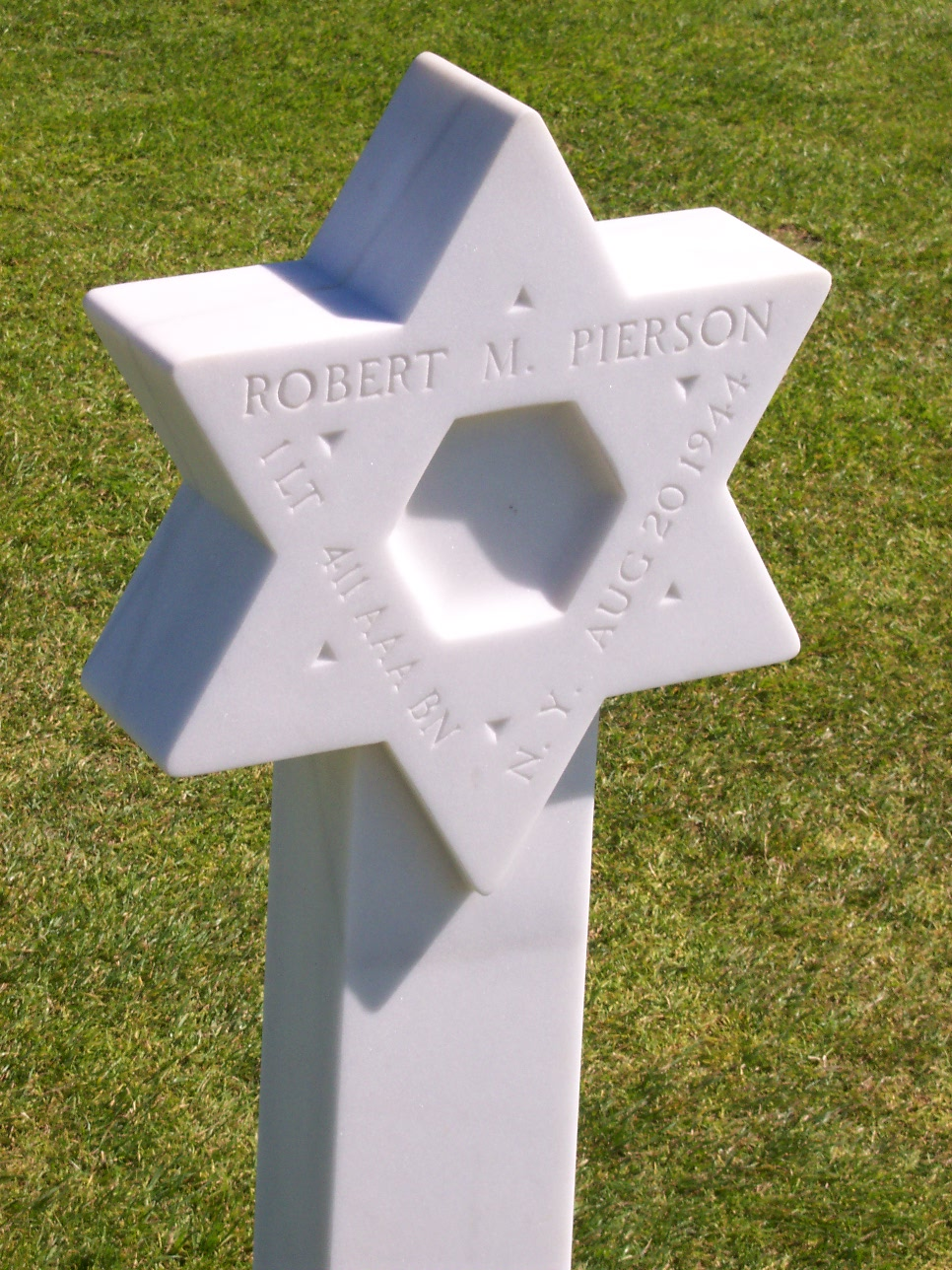 A jewish soldier's grave died during the D-day. Normandia (France)